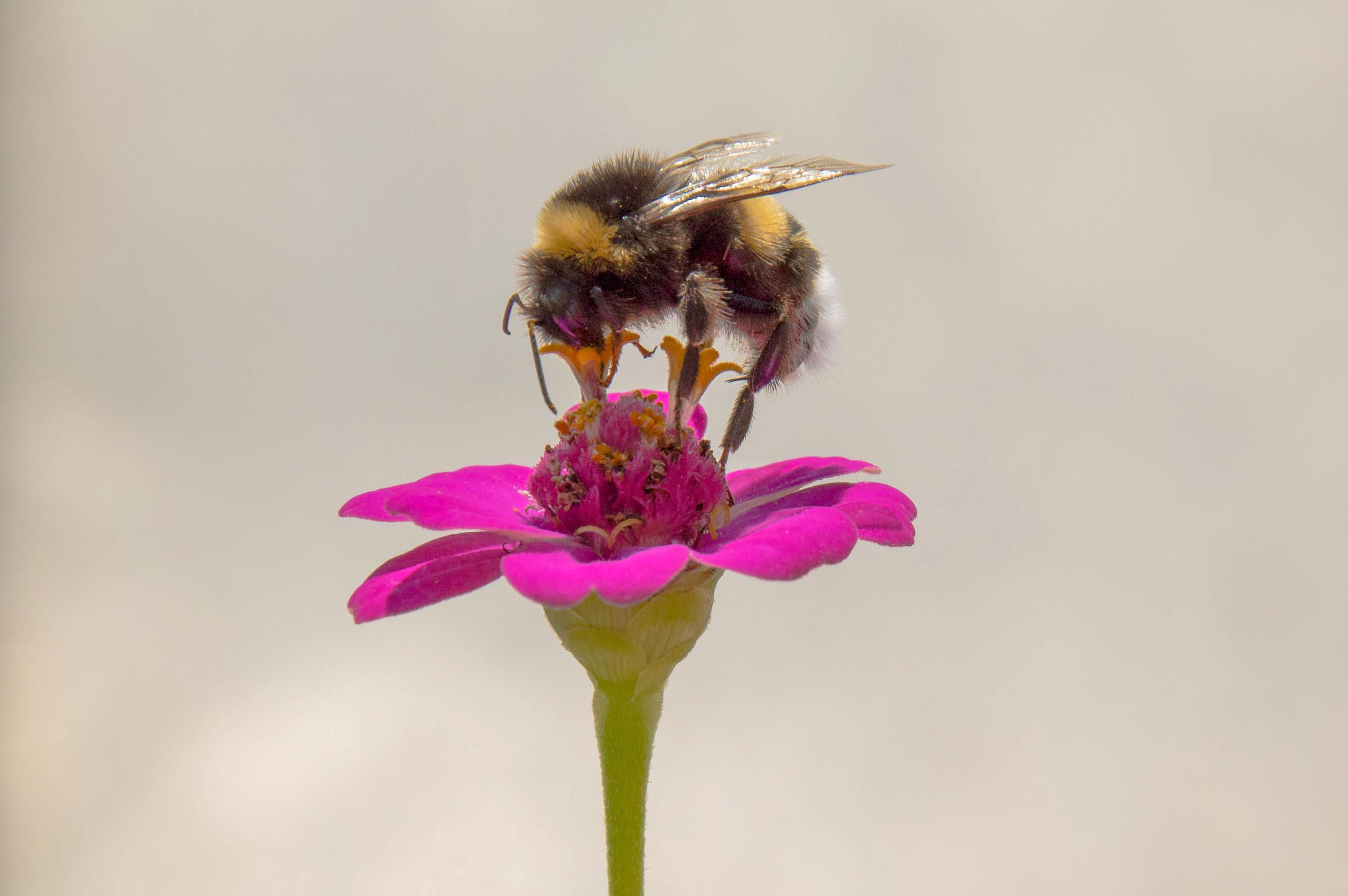 Bumblebee drinking nectar from a Zinnia flower (Zinnia angustifolia)